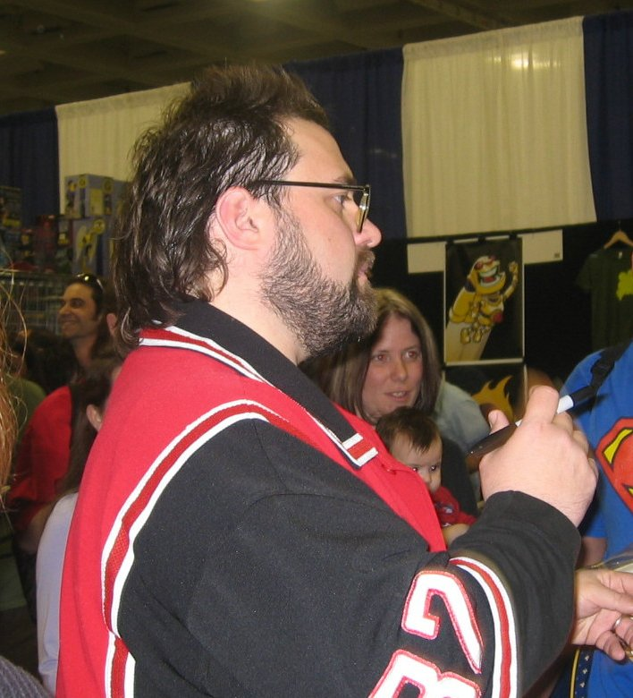 Kevin signing autographs @ the View Askew booth, Wondercon 2005.